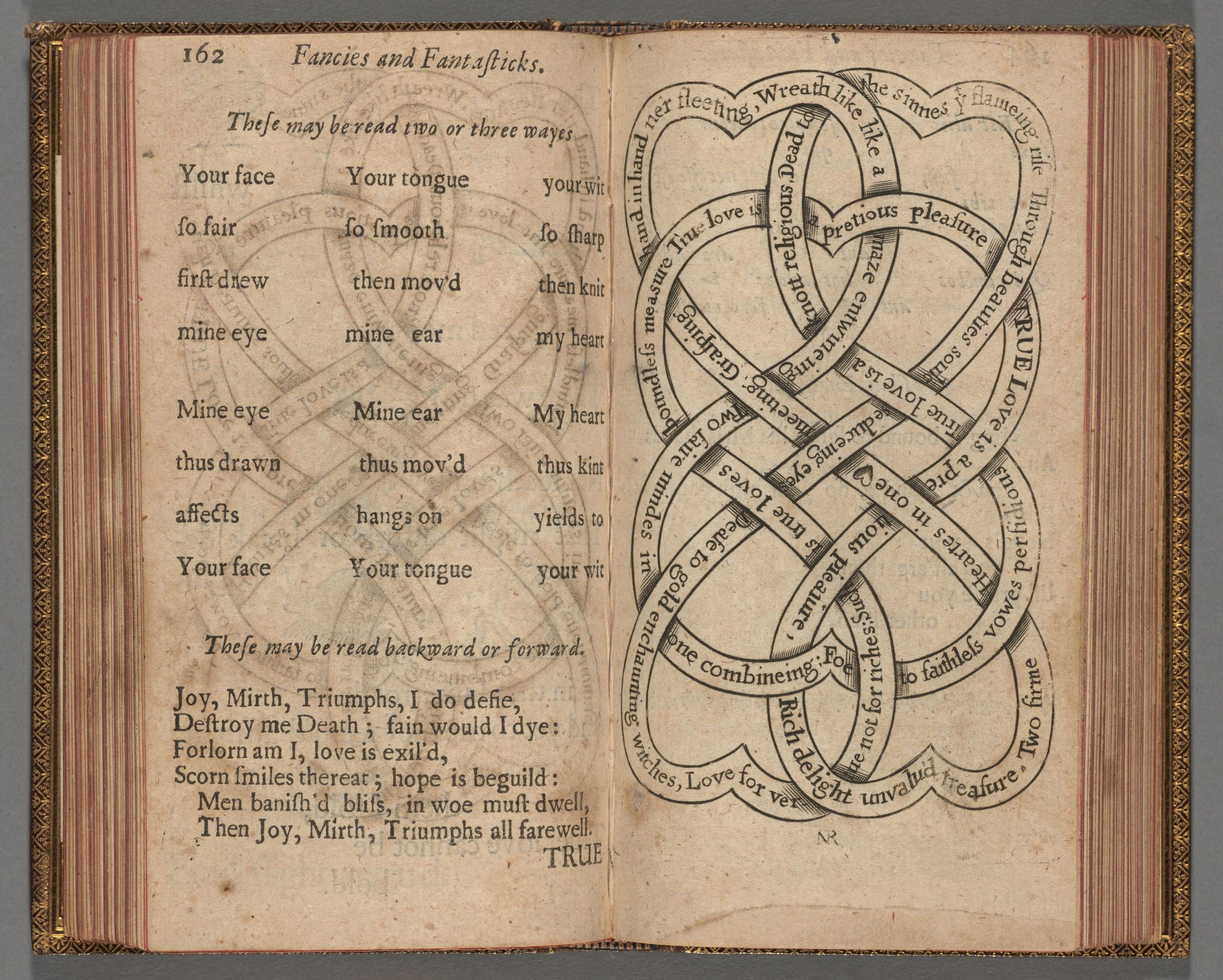 Two-page spread from Recreations for ingenious head-pieces, or, A pleasant grove for their wits to walk in (subtitle continues: of epigrams 700, epitaphs 200, fancies a number, fantasticks abundance: with their addition, multiplication, and division: also variety of new songs alamode, and letters upon several occasions, both serious and jocose, now newly added to this impression). London: 1683, by Sir John Mennes (1599-1671). 15476.205.10*, Houghton Library, Harvard University